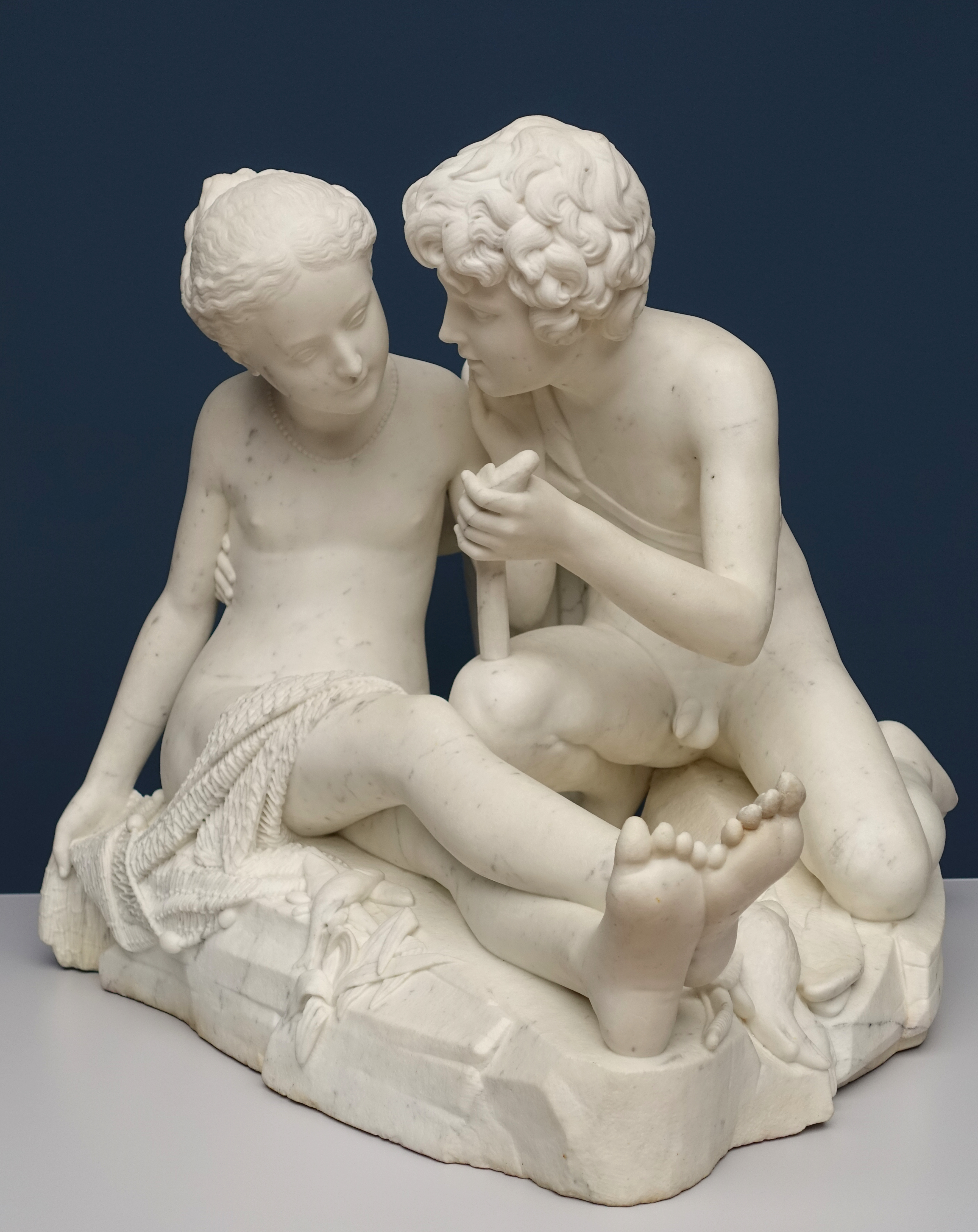 Daphnis and Chloe by John-Étienne Chaponnière, 1828, marble - Villa Vauban - Luxembourg City, Luxembourg.